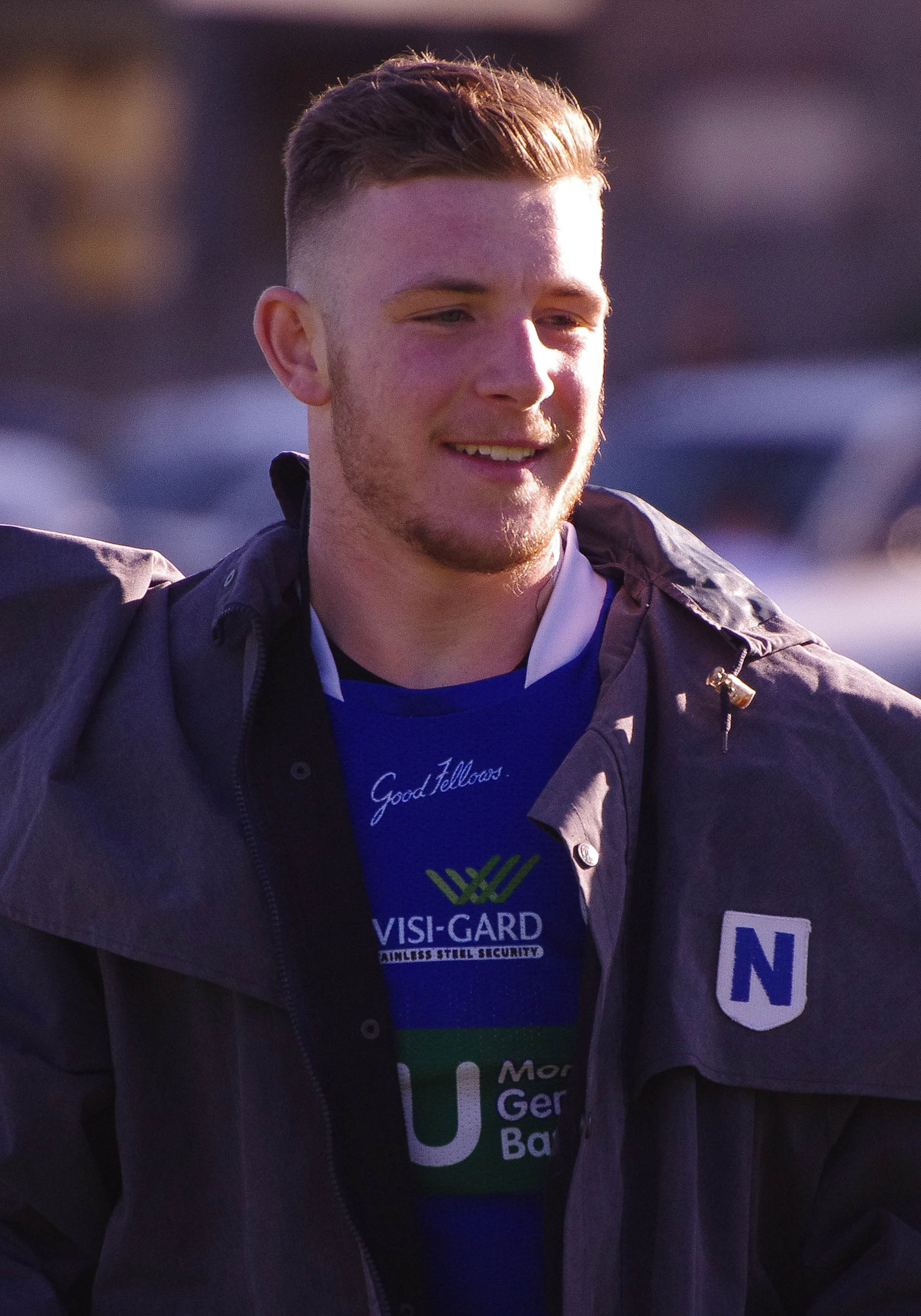 Jackson Hastings